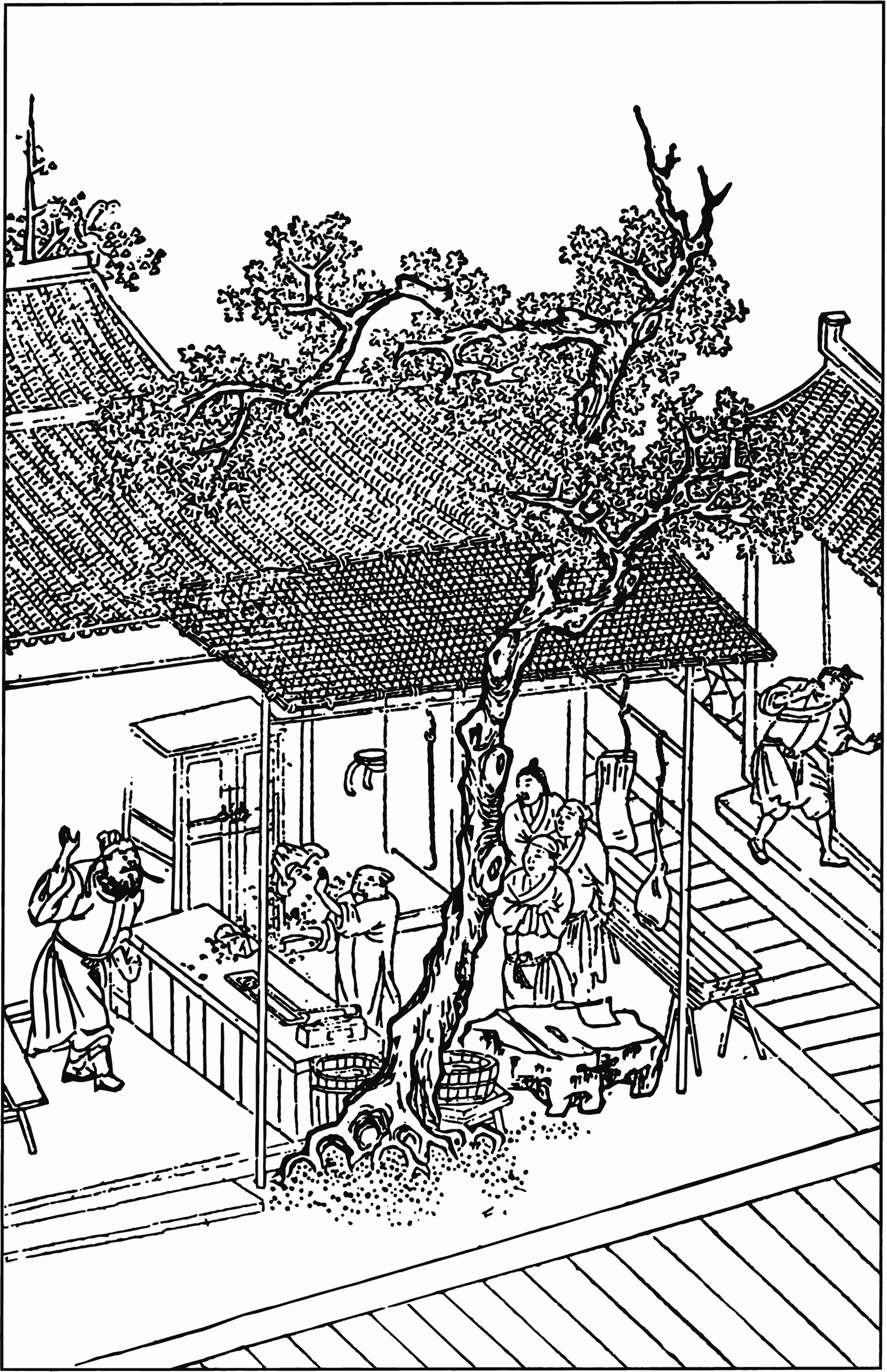 Illustration of ancient Chinese book “Outlaws of the Marsh”